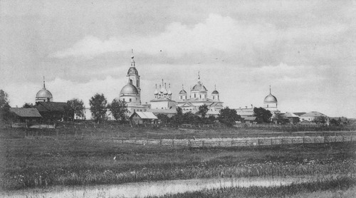 Mologa Afansiy Convent